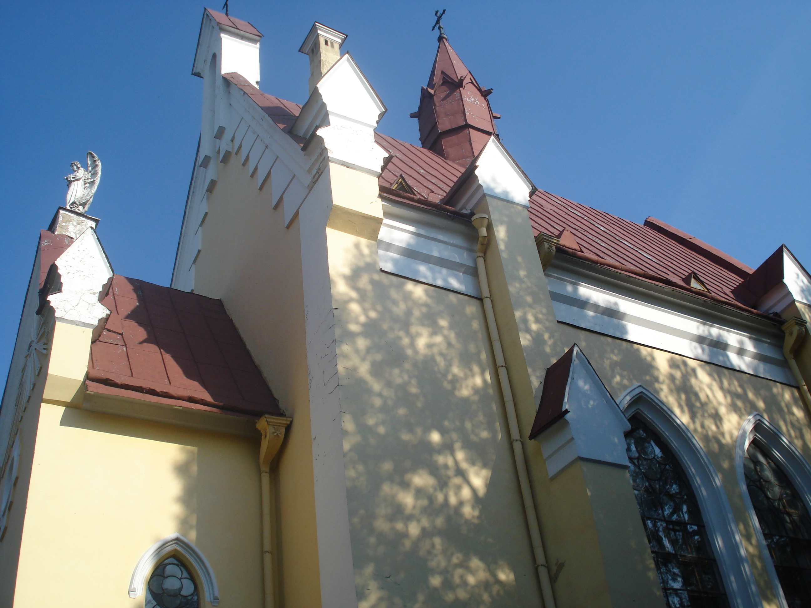 Church of the Providence of God in Vilnius (Костёл Божия Провидения; Dievo Apvaizdos bažnyčia, Gerosios Vilties g. 17)